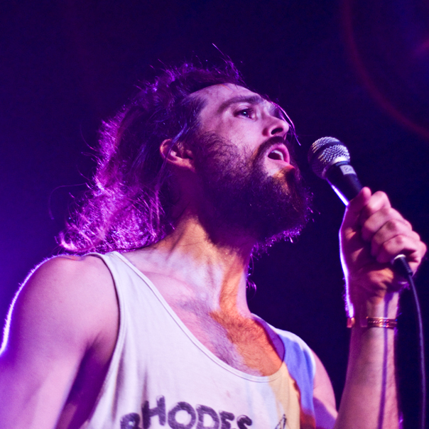 Alex Ebert of Edward Sharpe and the Magnetic Zeroes